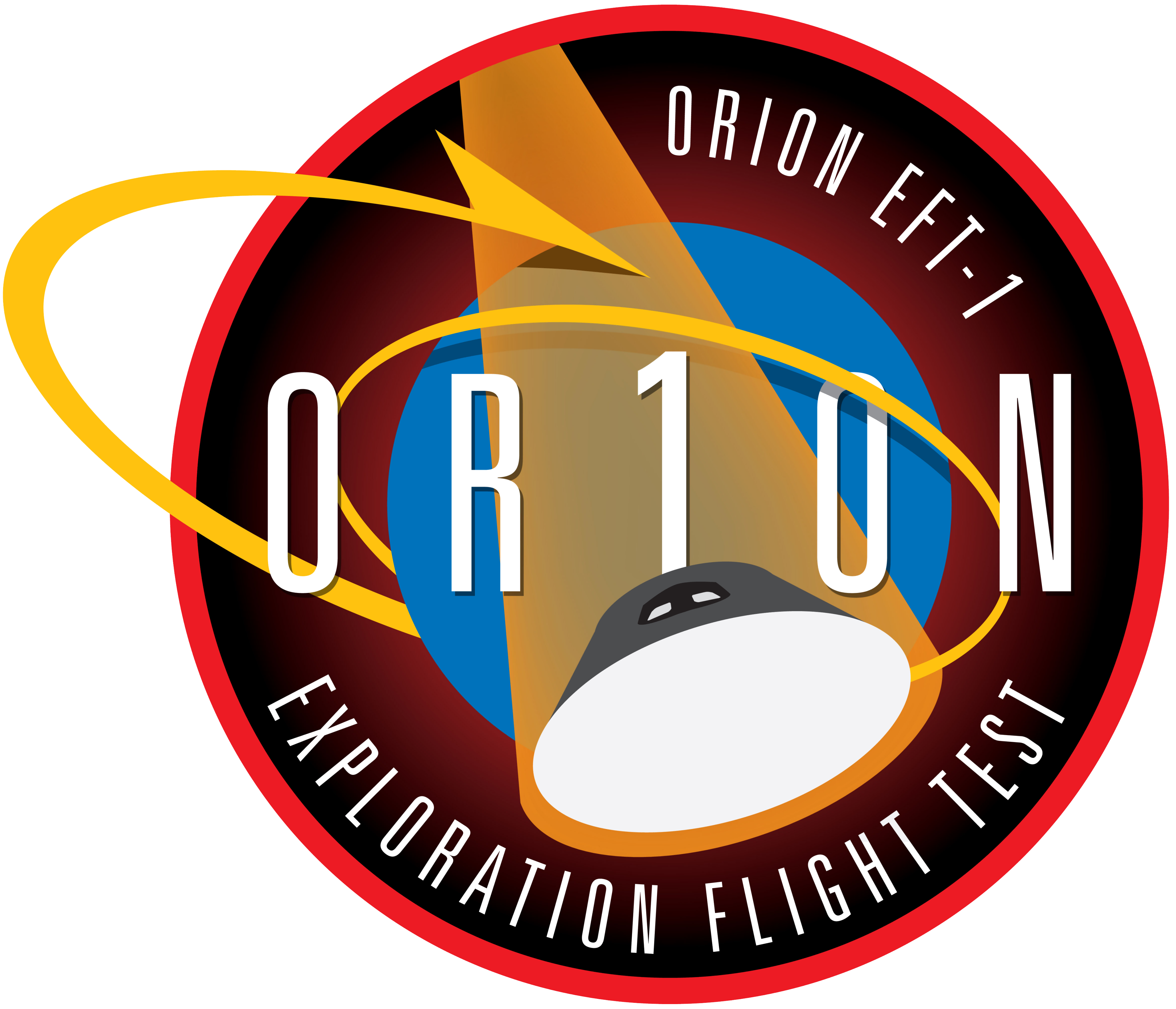 Orion Exploration Flight Test-1 insignia.